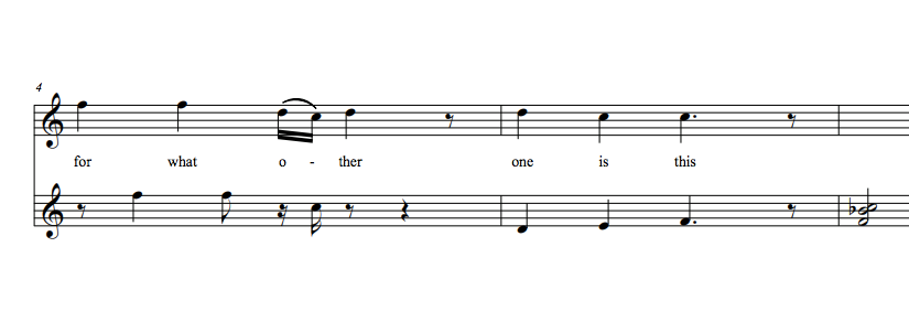 first song